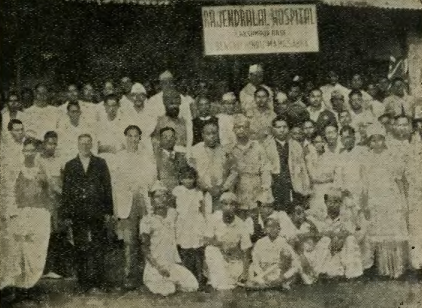 The image is scanned from a the book "Short Report of Hindu Mahasabha Relief Activities during Calcutta Killing and Noakhali Carnage", published by Bengal Provincial Hindu Mahasabha in 1946. The image shows a group photo of the relief workers during the inauguration of the Rajendralal Hospital at Lakshmipur in memory of Rajendralal Raychaudhuri, the President of Noakhali Bar Association and President of Noakhali District Hindu Mahasabha, who was killed in the carnage.